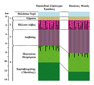 Geology diagram: section of Troodos Mountains formations.